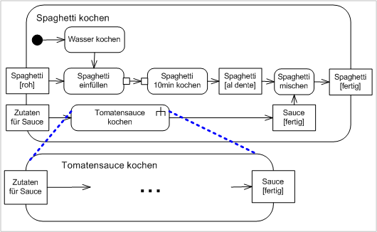 Activity diagram